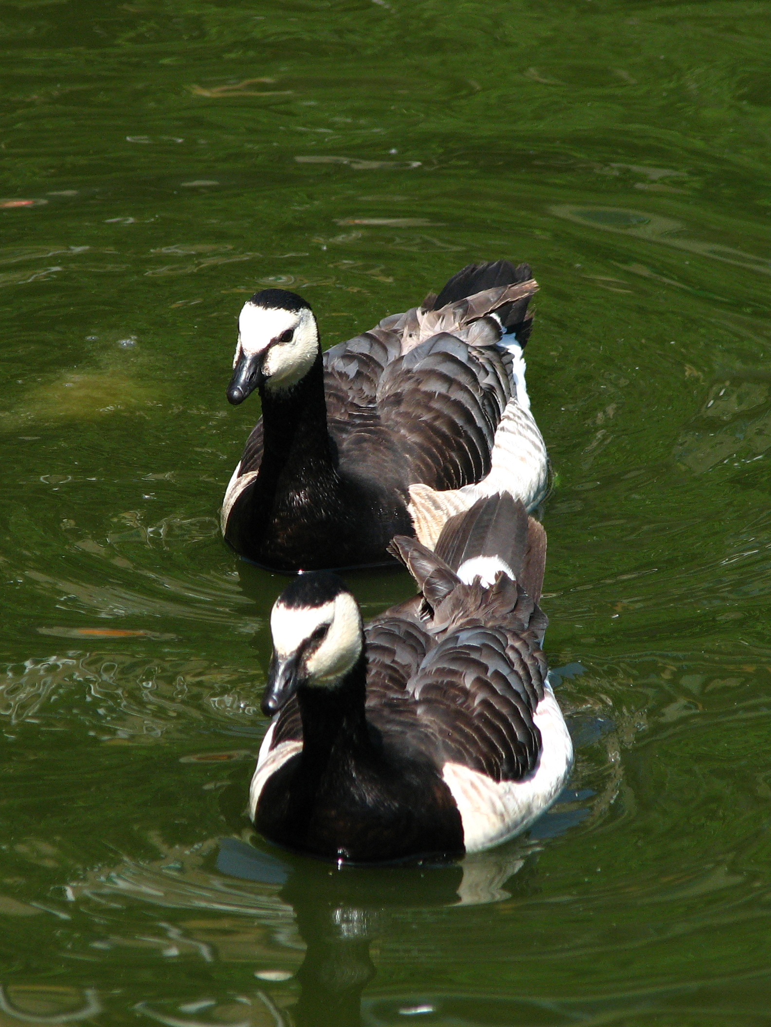 Moscow Zoo. Barnacle Goose (Branta leucopsis).